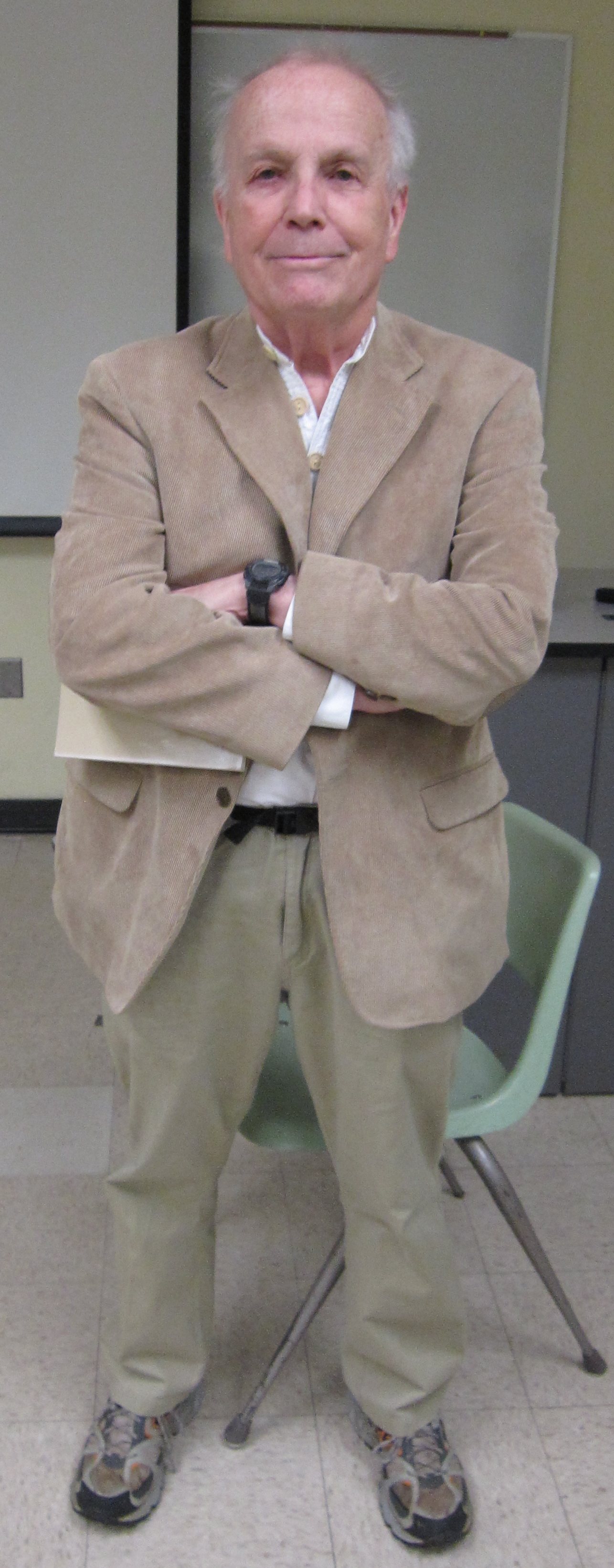 Philosopher and science fiction writer Justin Leiber on December 2, 2009 inside the Diffenbaugh building at Florida State University.